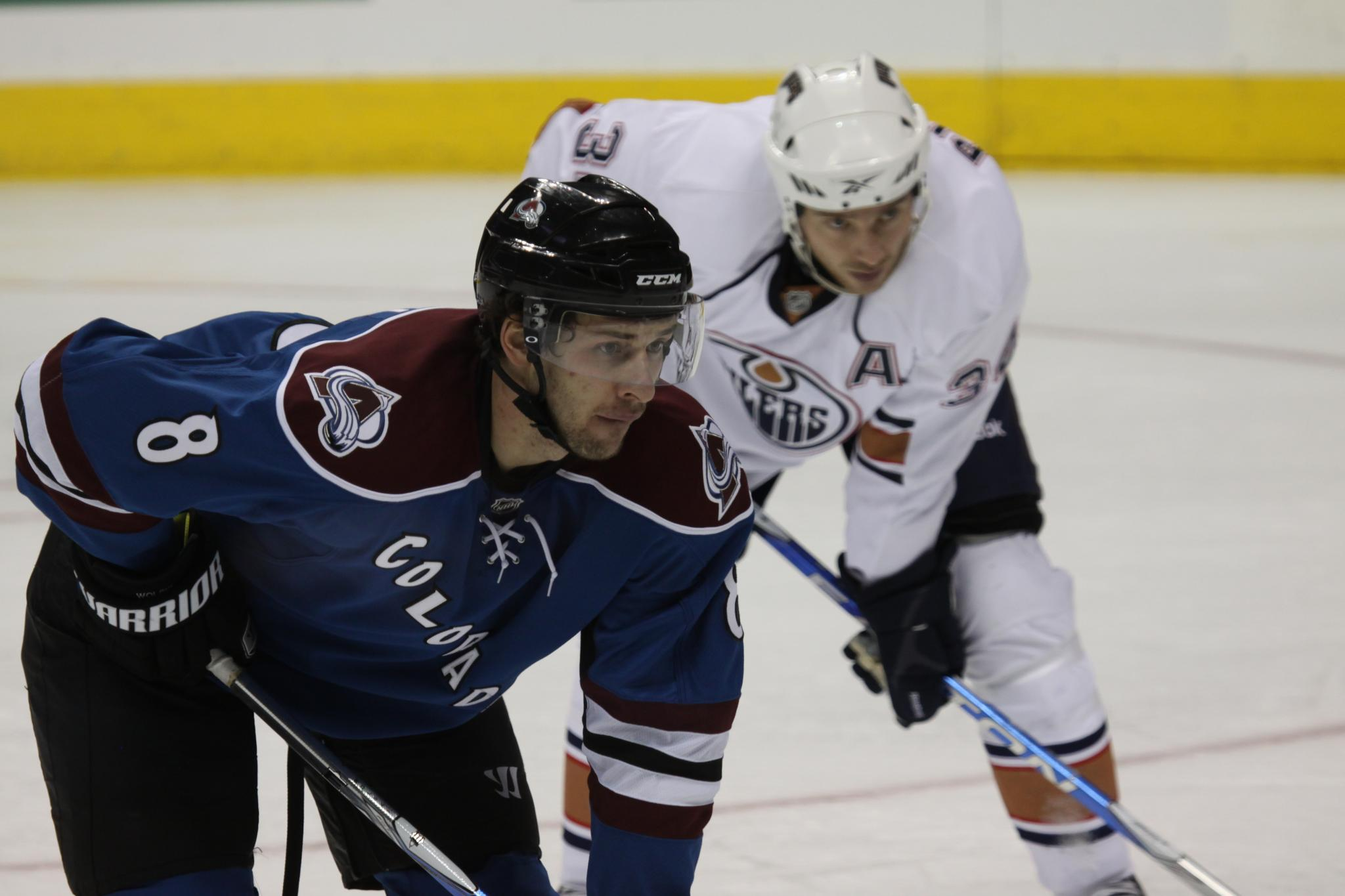 Edmonton Oilers at Colorado Avalanche, 2/6/10 @ Pepsi Center, Denver CO USA